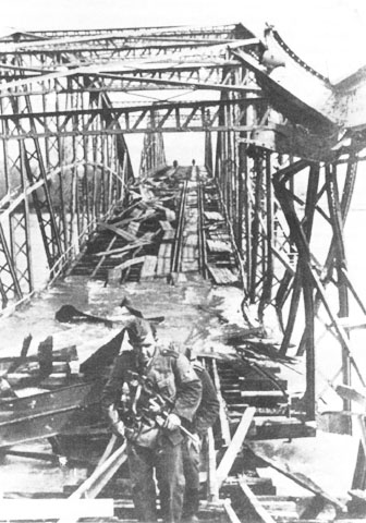 A black and white photograph of a damaged steel girder bridge with a German soldier in the foreground Other information This photograph was first published in November 1953 on page 28 of the Department of the Army Pamphlet No. 20-260 Historical Study The German Campaigns in the Balkans (Spring 1941). A note on page ix states that most of the illustrations are U.S. Army photos from captured German films.